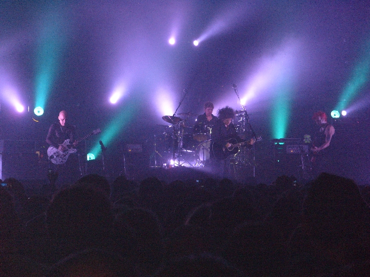 The Cure in Prague